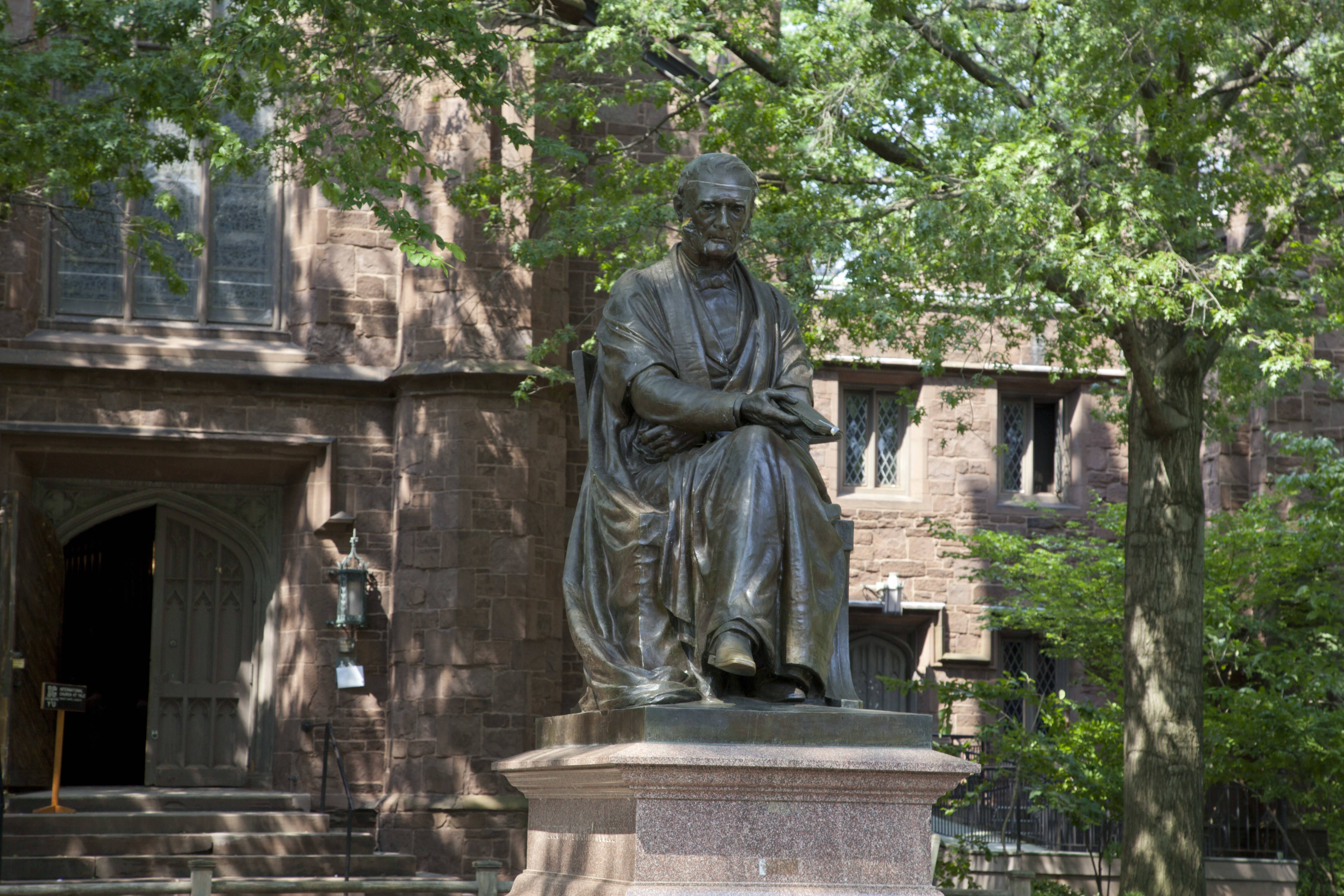 Statue of Theodore Dwight Woolsey with Dwight Hall in background, Old Campus, Yale University, New Haven, CT